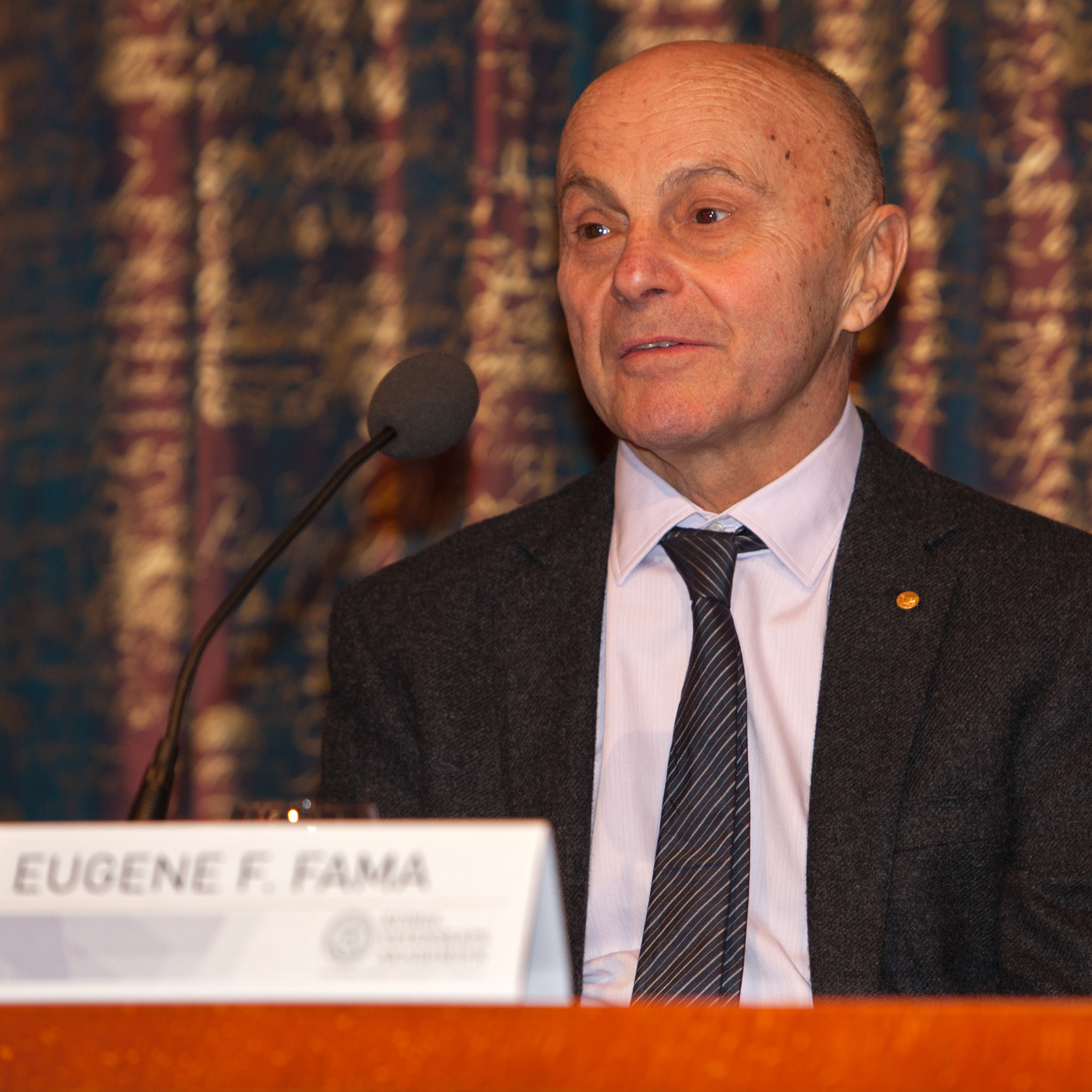 Nobel Laureates 2013 press conference at the Royal Swedish Academy of Sciences in December 2013